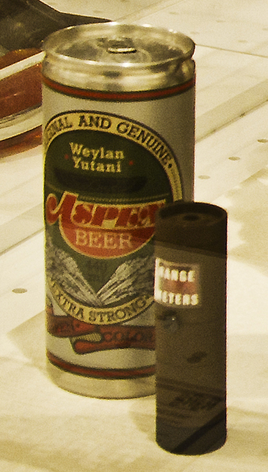 Replica of "Aspen" beer can (Weyland-Yutani) from the 1979 film Alien displayed at ExpoSYFY, San Sebastián, Spain.